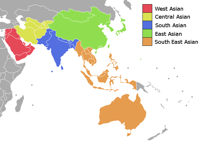 Asian Football Confederation countries. Notes: Australia joined the AFC in 2006, and is an ASEAN invitee. Maldives Republic is assigned to the Asean region by the AFC (and apparently an invitee, but not confirmed), but takes part in tournaments with South Asian nations. Iran is assigned to the Central Asian region by the AFC, but takes part in tournaments with West Asian nations. Kyrgyzstan is assigned to the Central Asian by the AFC, but took part in the West Asian Football Federation Championship in 2000.